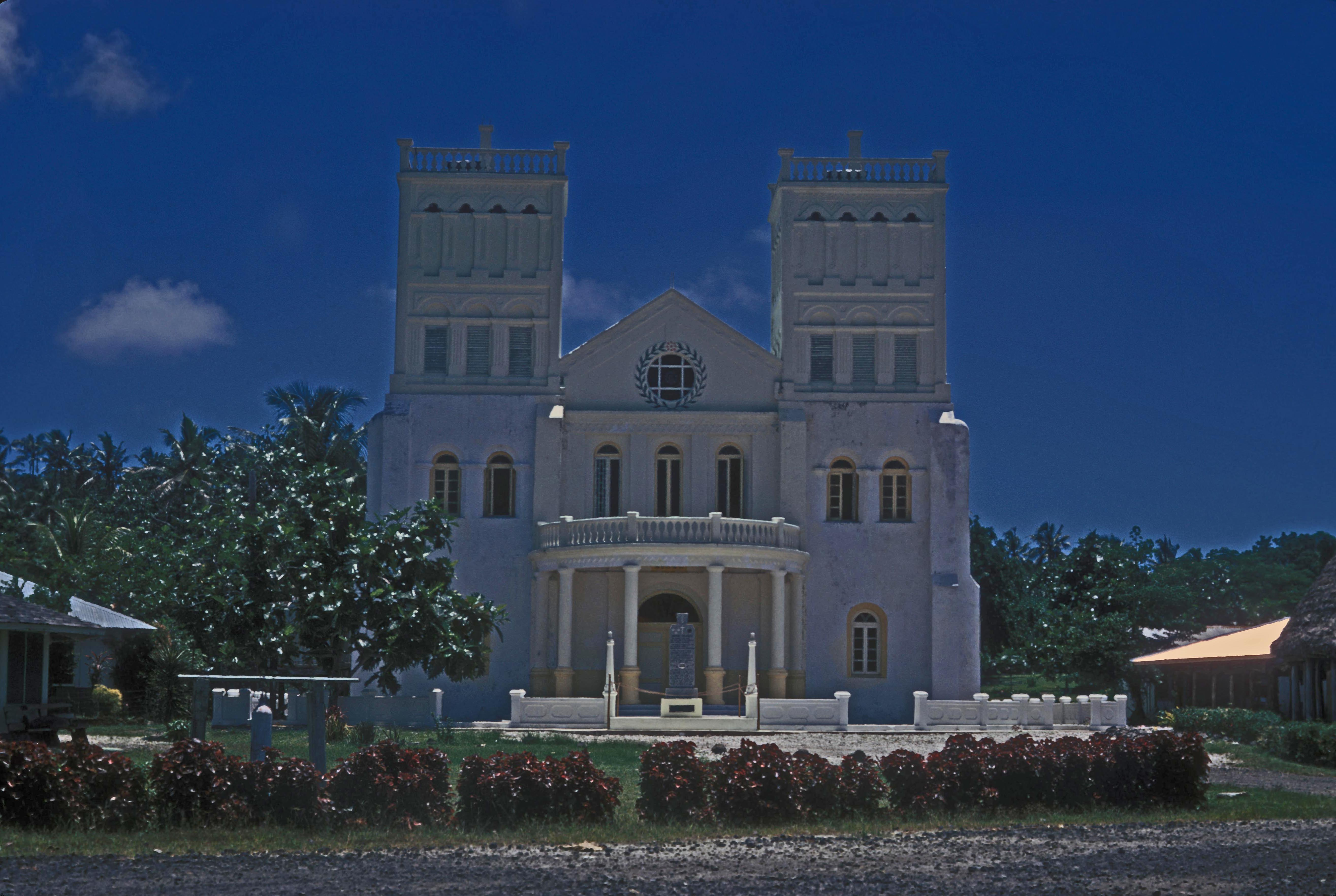 The Village of Leone is the second largest settlement on Tutuila and once served as the Polynesian capital of the island. It was also the landing site of the first missionary, John Williams, who arrived in 1832. This church has a memorial to him directly in front. Wikipedia has a link to Leone but only a very brief mention of this town of some importance. This church is one of the most impressive on the island and a very historically significant although not listed on the National Register.